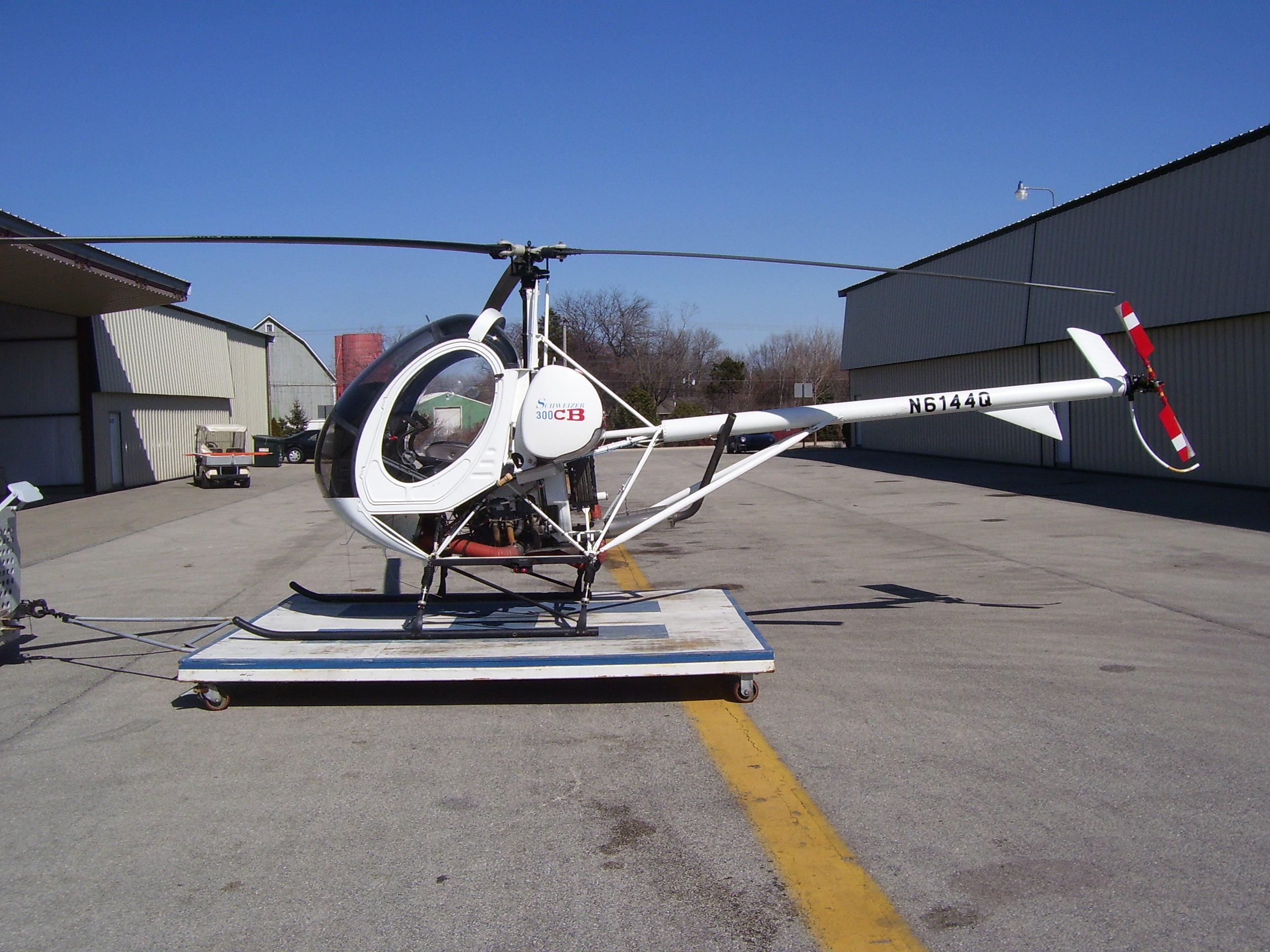 Left side view of a Schweizer 300CB helicopter on a special dolly that is used to move the aircraft into and out of its hangar.